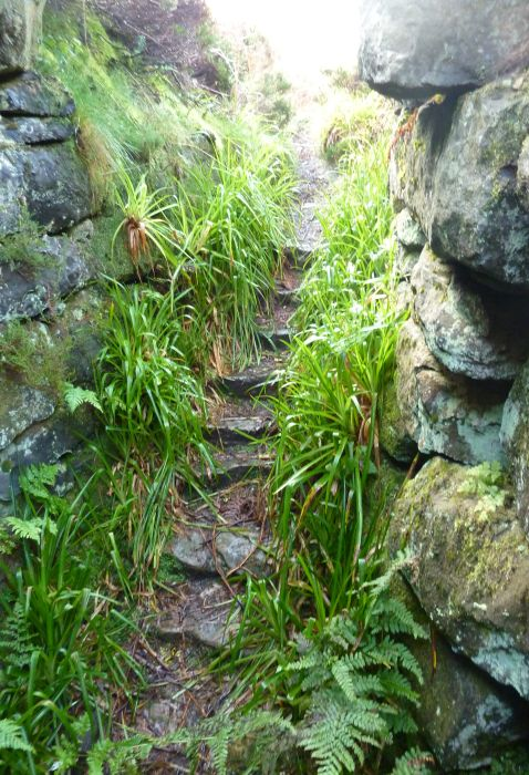 Tappoch Broch, Torwood, Stirlingshire, Scotland